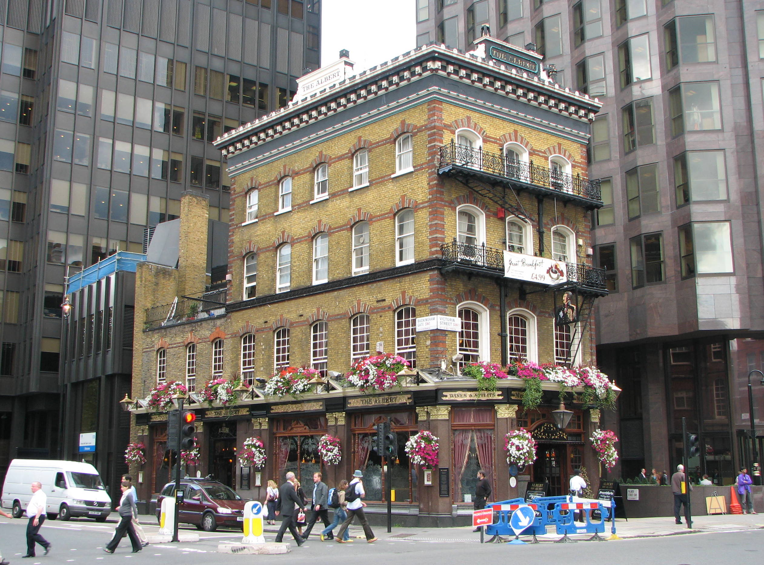 The Albert Pub, London